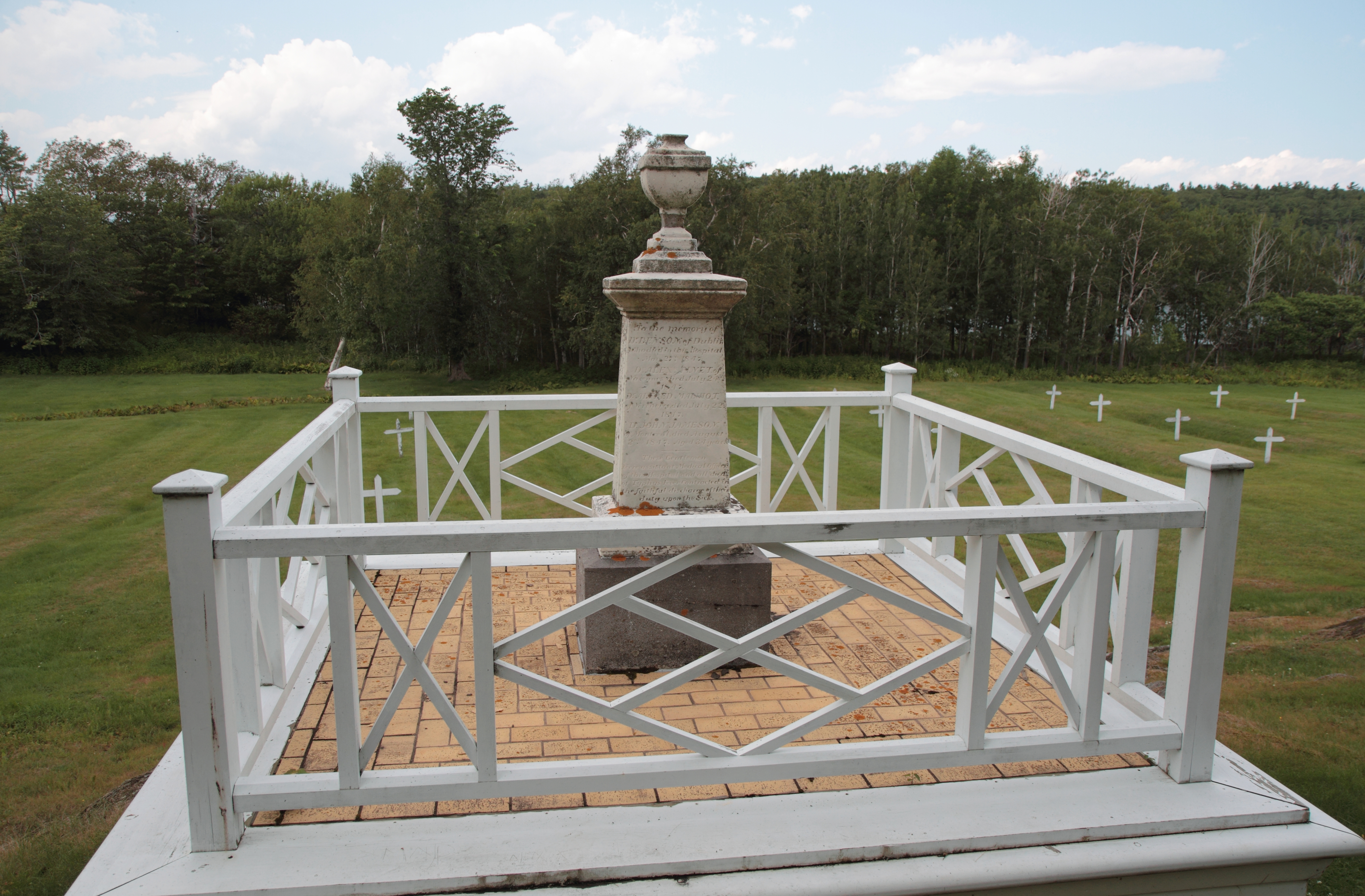 The Monument to Physicians, Grosse Isle, Quebec. In the background, the Irish Cemetery.